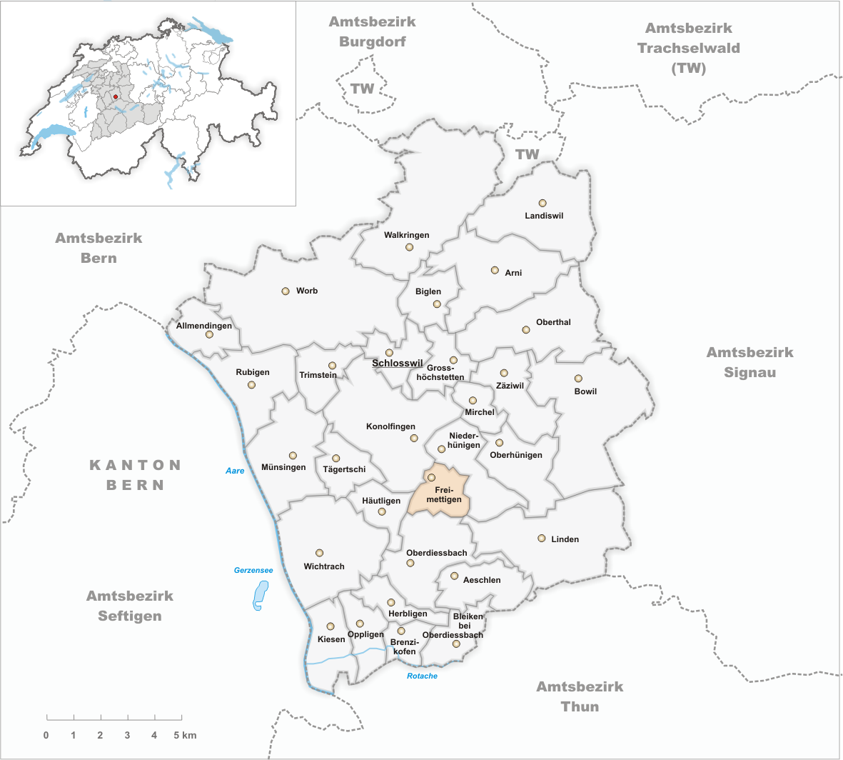 Municipality Freimettigen